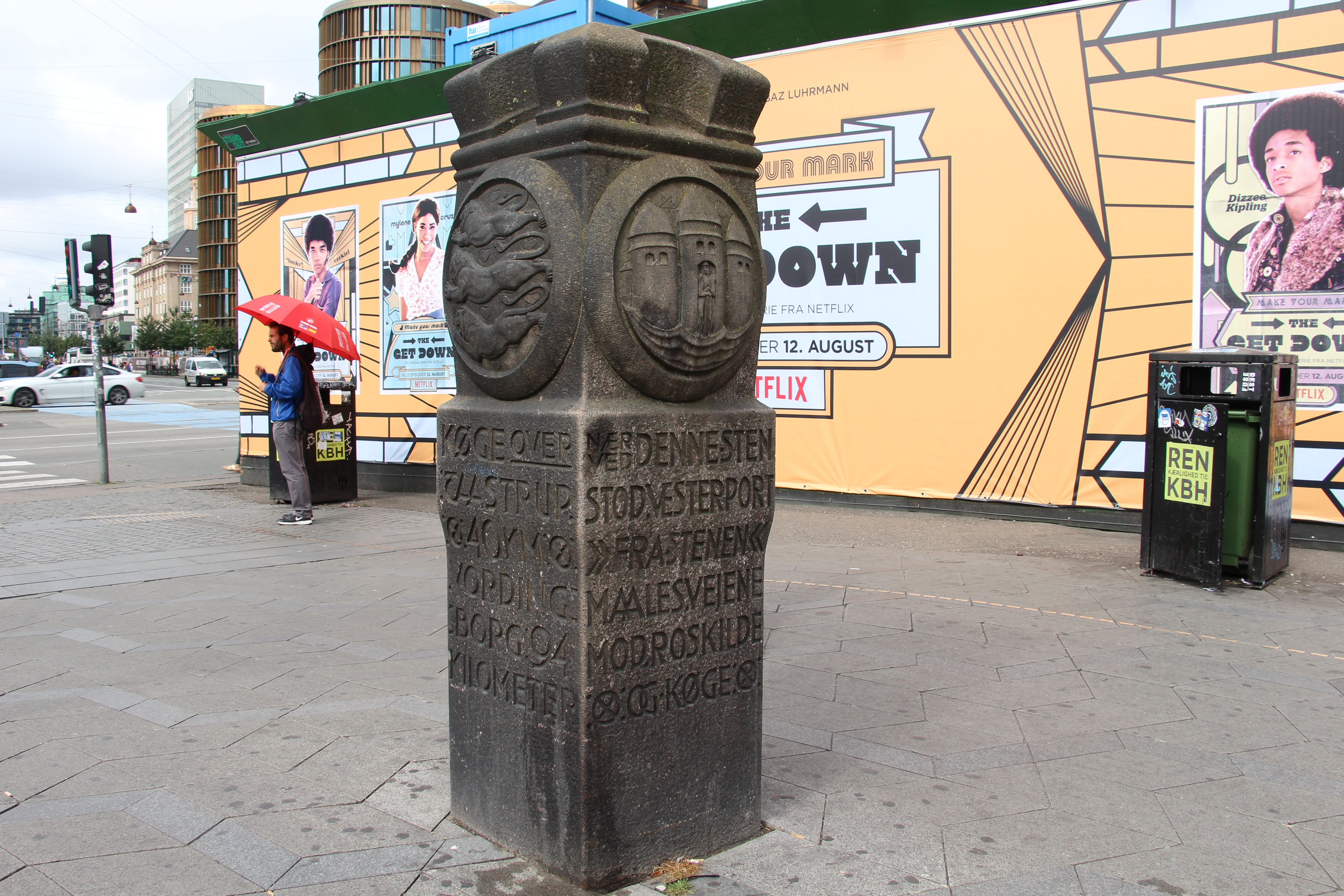 (Indre By) Rådhuspladsen Milestone: Zero Stone at the Town Hall Square. Arch. P.V. Jensen Klint 1925.